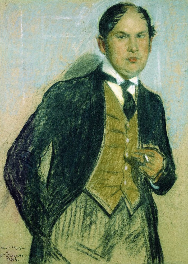 Portrait of Ukrainian artist Heorhiy Narbut by Boris Kustodiev, 1914.